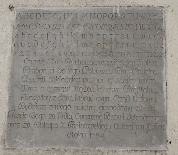 A board from 18th century on the belfry in Joniec, Poland